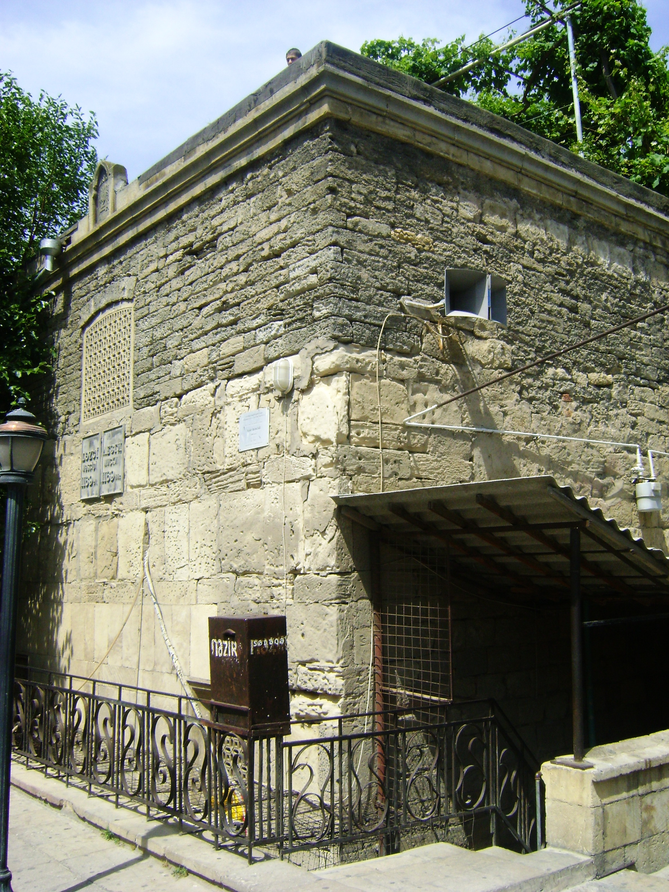 Lezgi Mosque in the Old City, Baku, Azerbaijan 1169